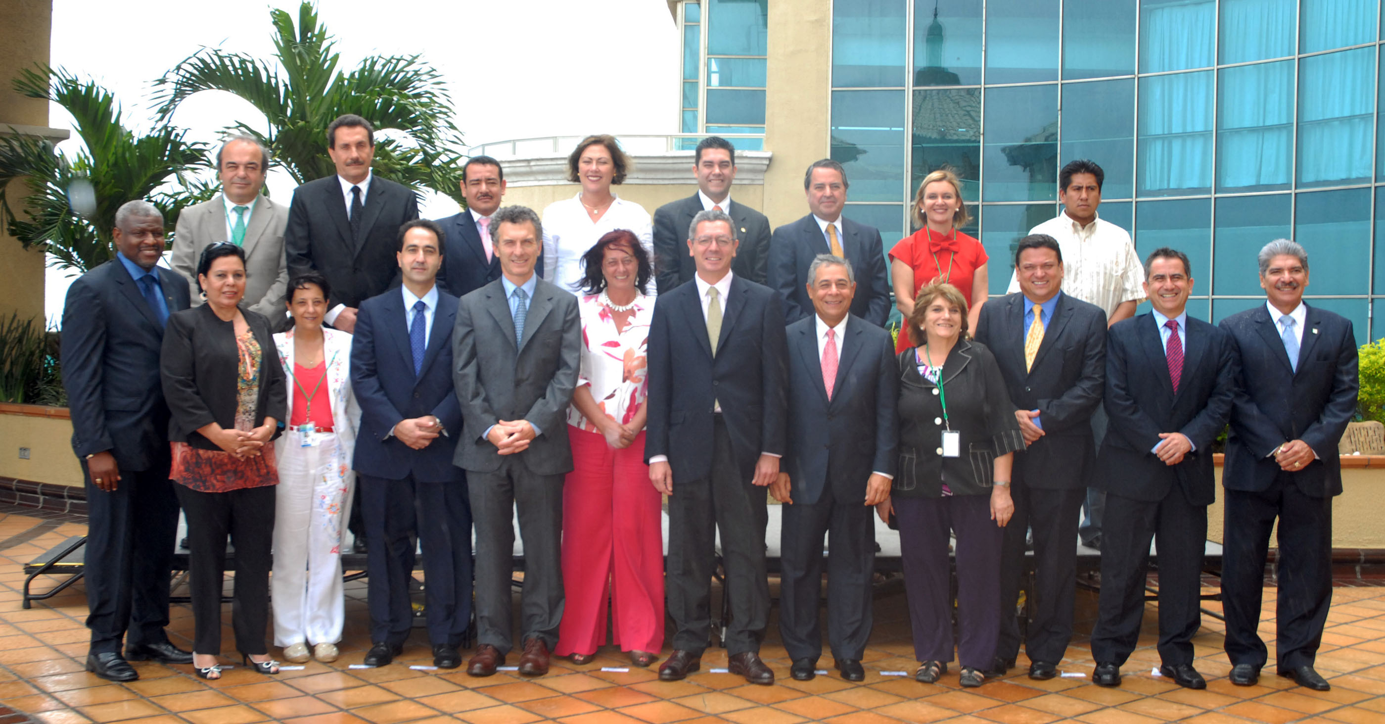 Santo Domingo, República Dominicana - El jefe de Gobierno de la Ciudad de Buenos Aires, Mauricio Macri, participa de la ceremonia de apertura de la asamblea bianual de la Unión de Ciudades Capitales Iberoamericanas (UCCI), cuya vicepresidencia ejerce a nivel regional. Departamento de Fotografía GCBA